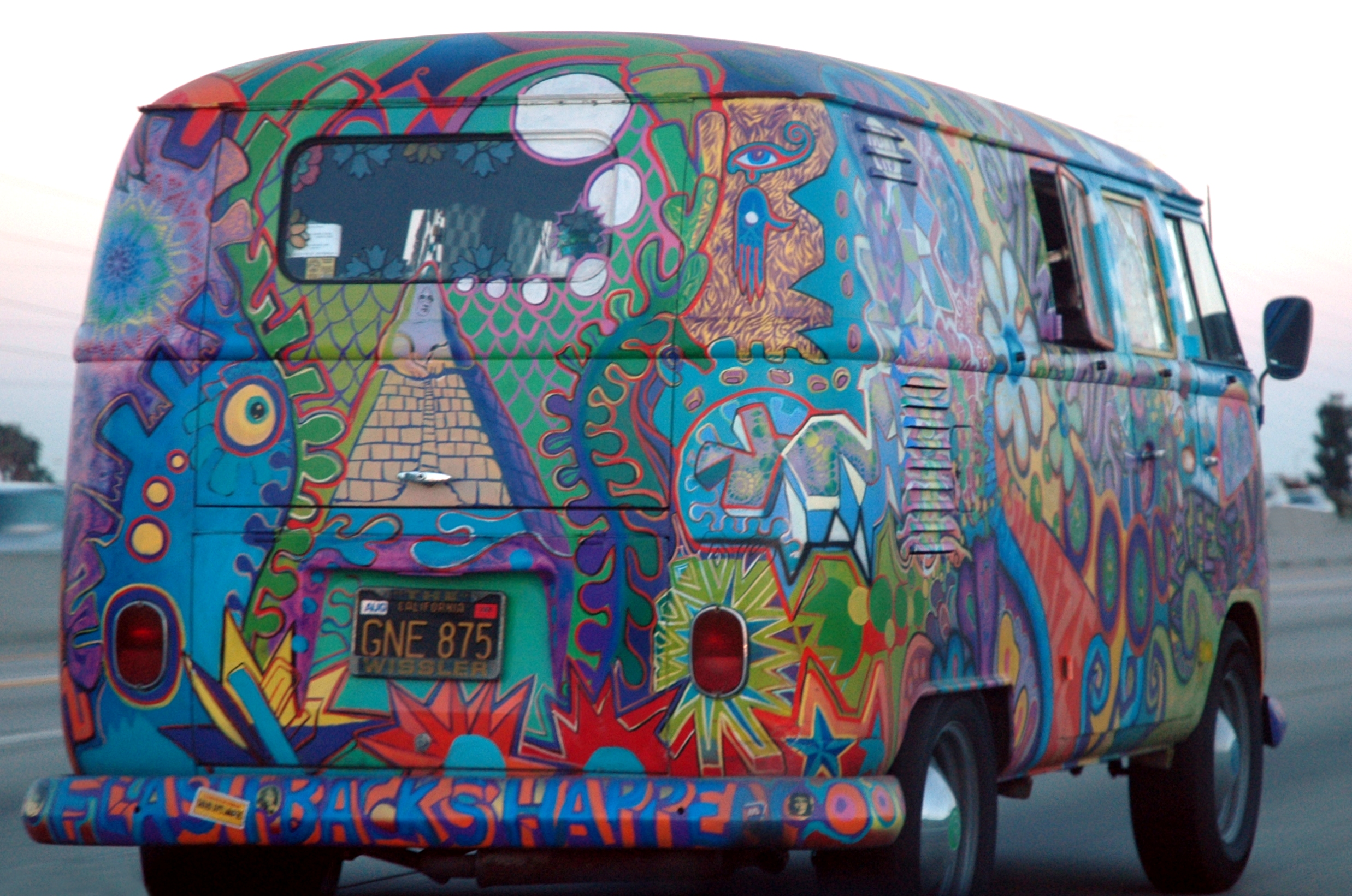 I was driving, so Michele snapped these pictures of this awesome hippie van. The back bumper reads "Flash Backs Happen".